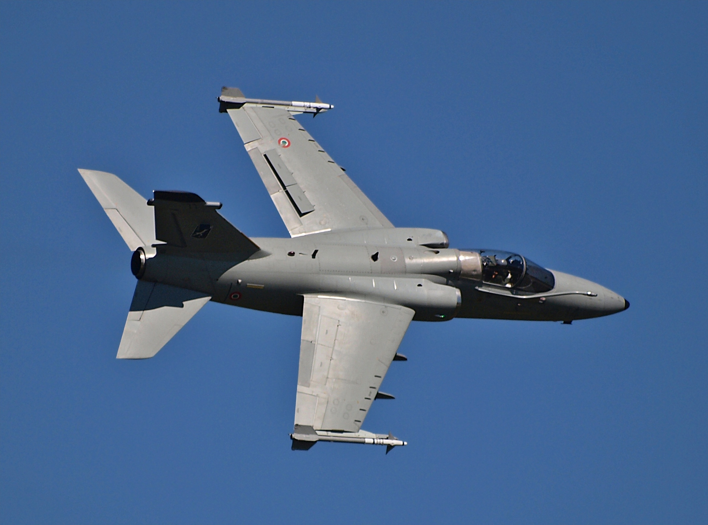 AMX 'Ghibli' of the Aeronautica Militarie Italiana (Italian Air Force) flown by major Igor Bruni. Rivolto, Frecce Tricolori's 50-year anniversary.